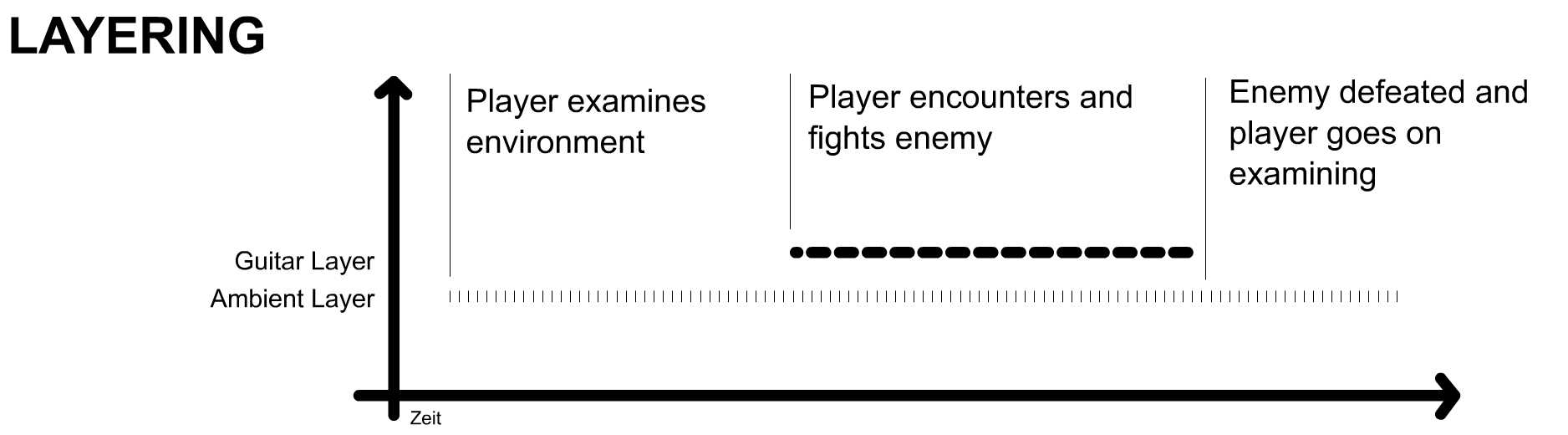 Layering